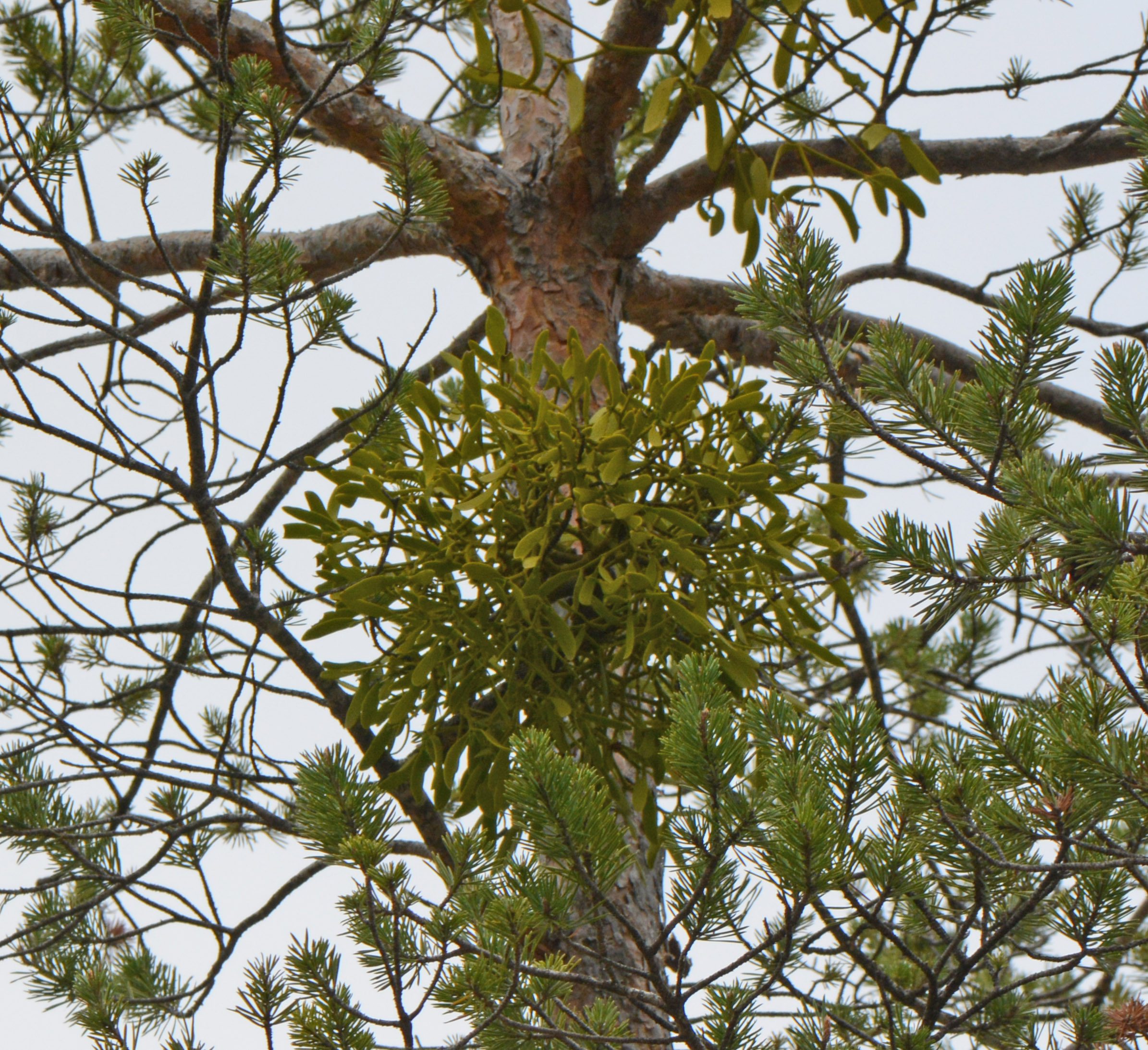 Tuft of mistletoe (viscum album or viscum sp.) On coniferous trees (Pines) in the Alpes-Maritimes, in the South-East of France); in the Esteron valley, spring 2018. Note: Summers of the previous 2 years have been very dry. This year (2018) many softwoods died in parts of the Esteron Basin, and when mistletoe was present on these trees, it took the same red-brown color as they once died.